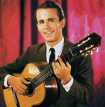 Hernán Figueroa Reyes. Folk musician. Argentina